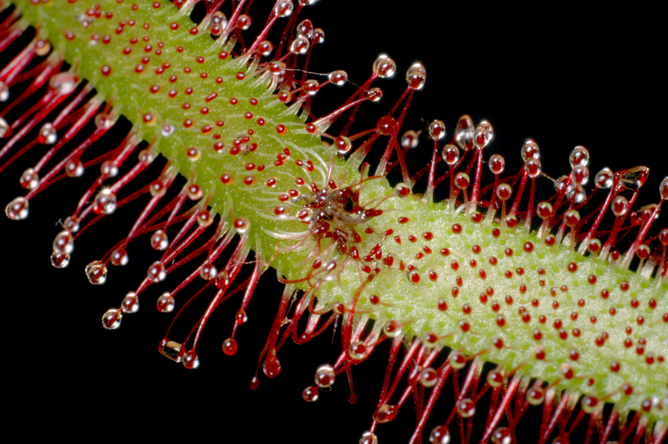 Drosera capensis